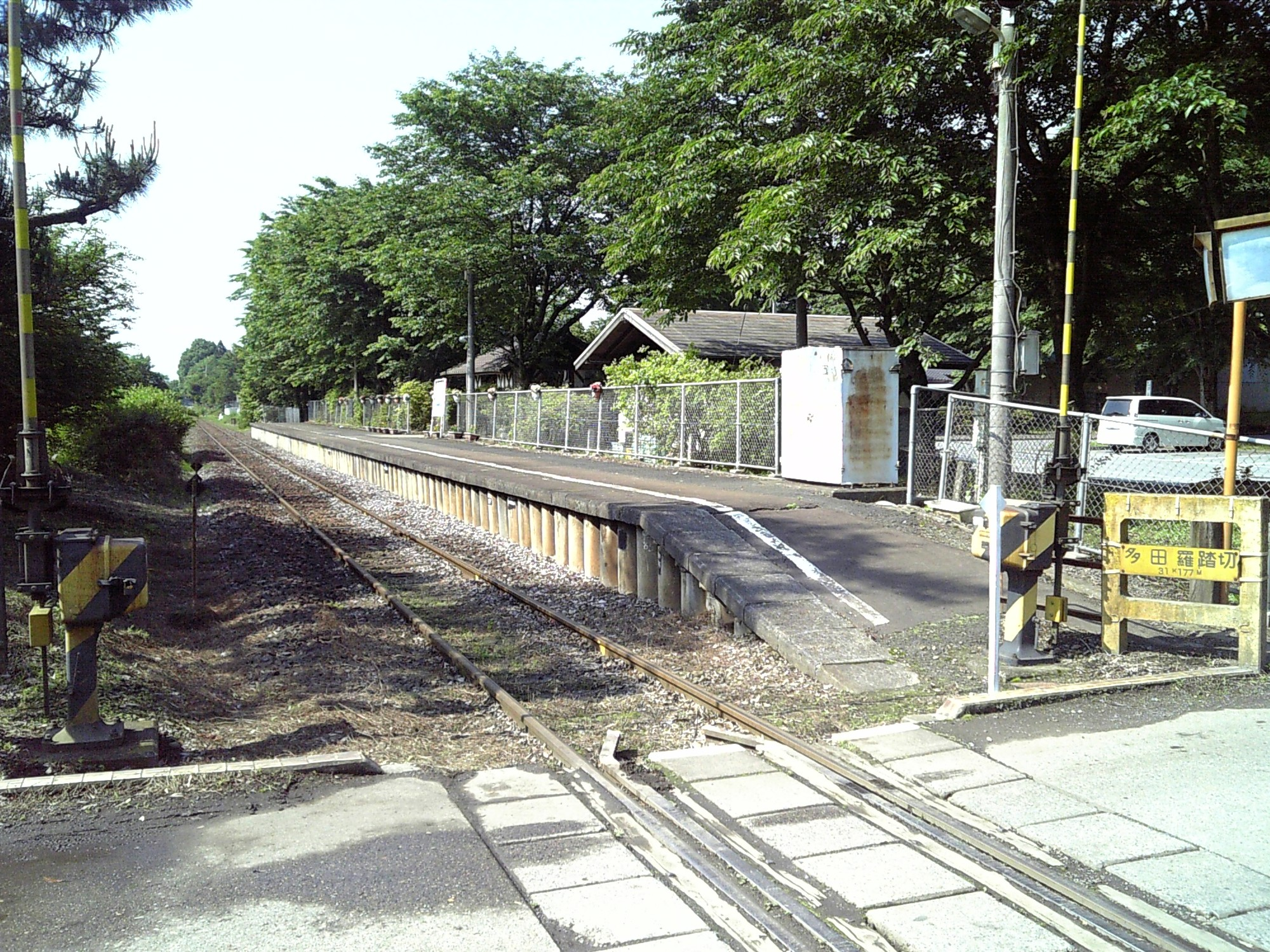 Mooka Railway Mooka Line Tatara Station